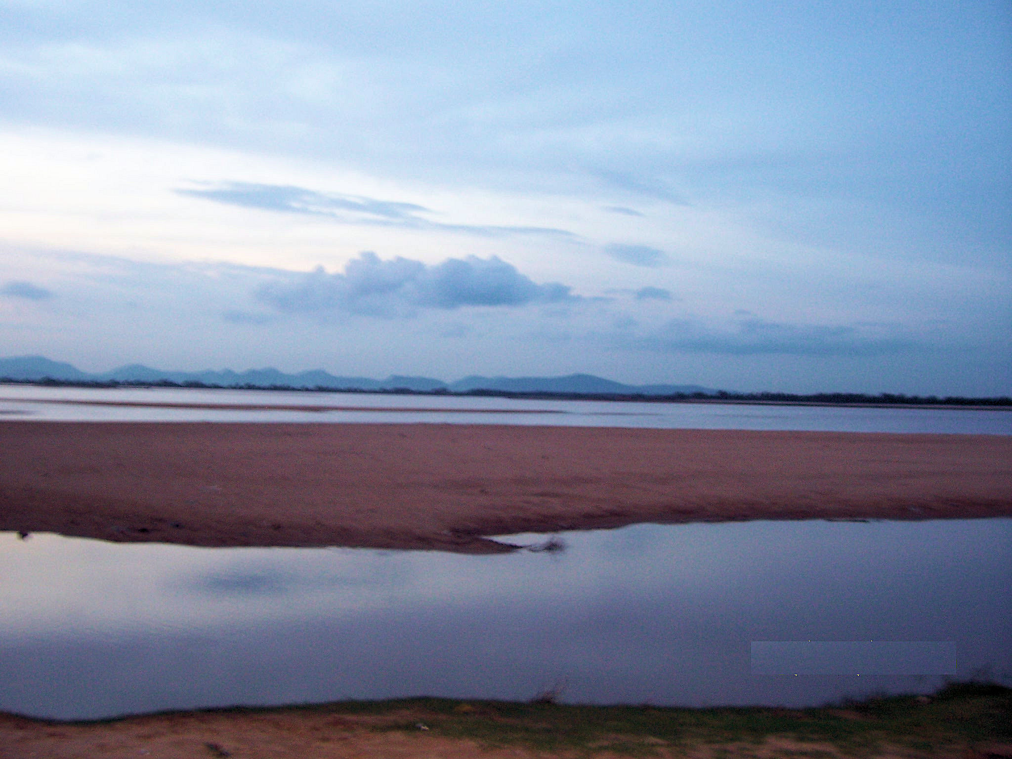 An evening at Kathjodi River Bank in Cuttack